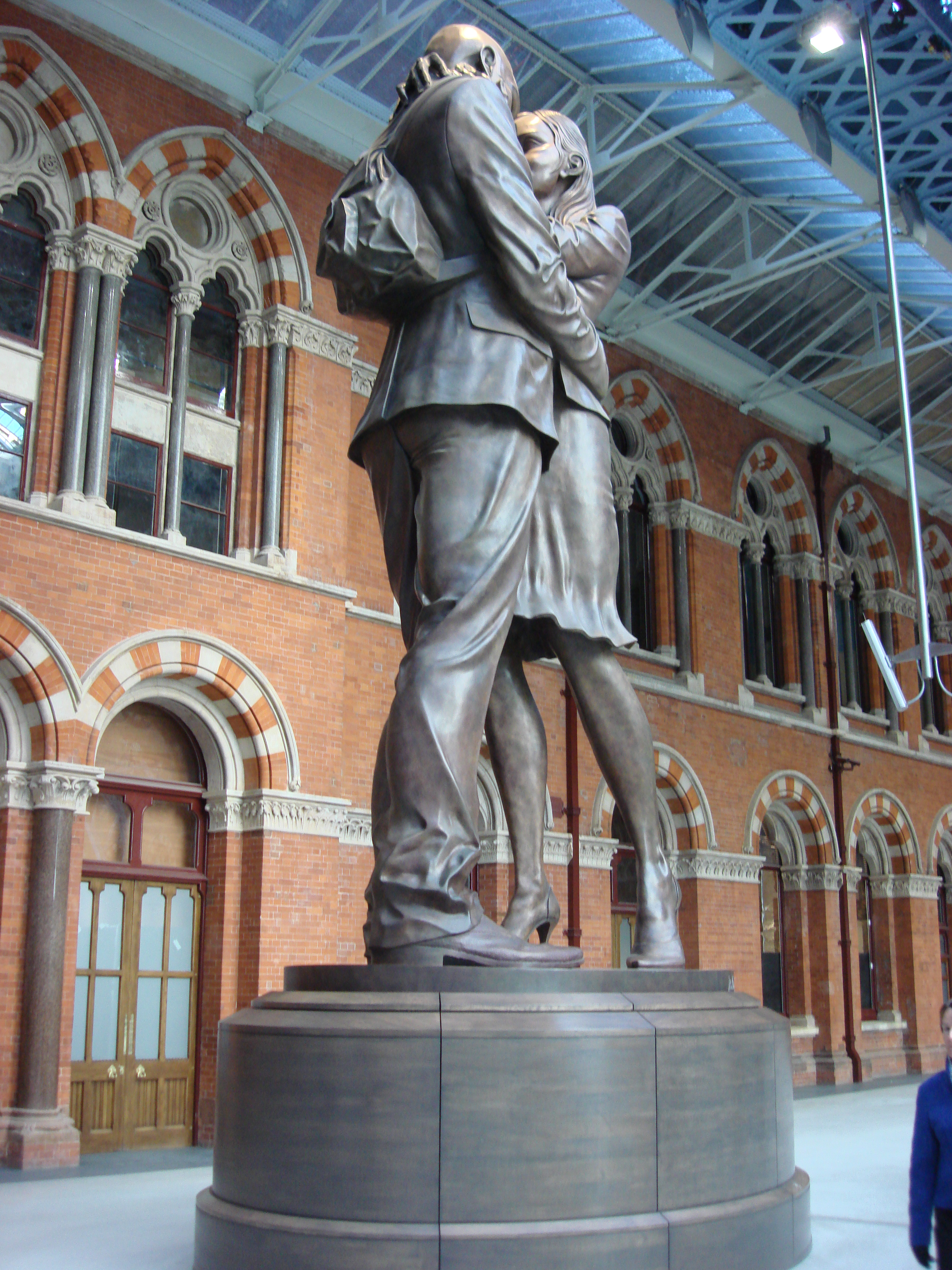 A 30-foot bronze sculpture called The Meeting Place by Paul Day featuring two reunited lovers embracing in the newly-refurbished St Pancras station in London.